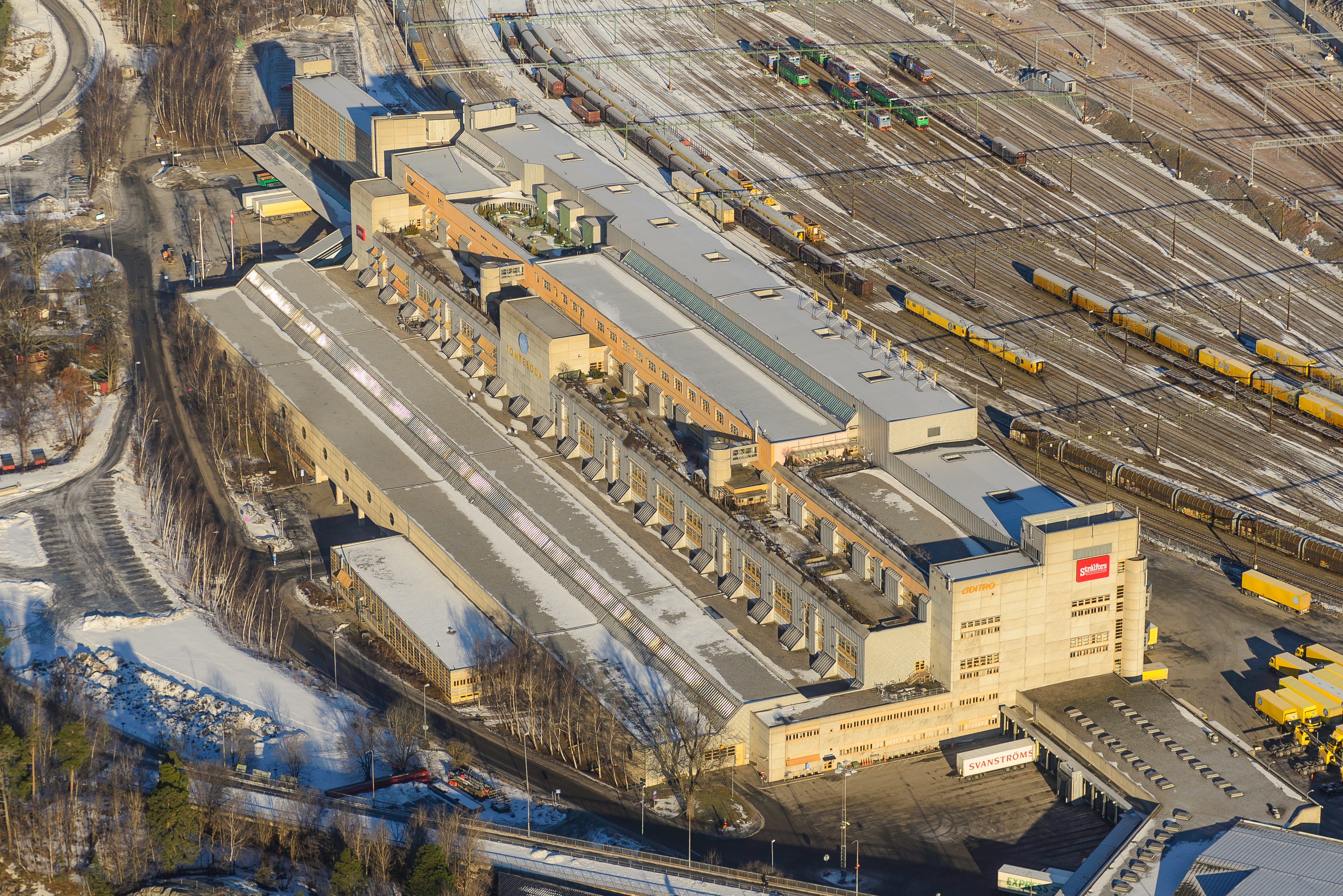 Tomteboda post terminal, built 1980-83.